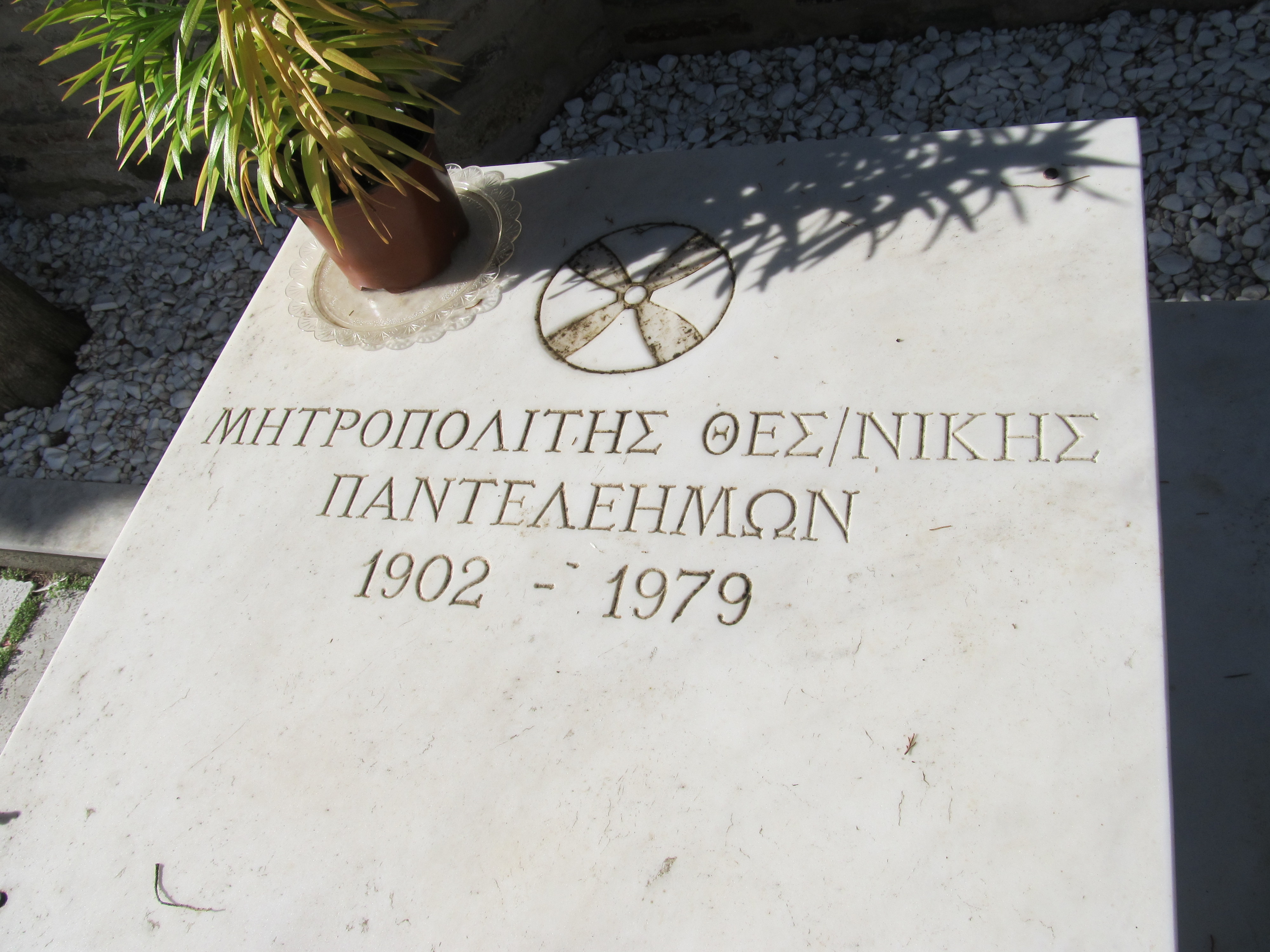 Tombstone of Metropolitan Panteleimon Papаgeorgiou at the Vlatades Monastery in Thessaloniki, Greece.